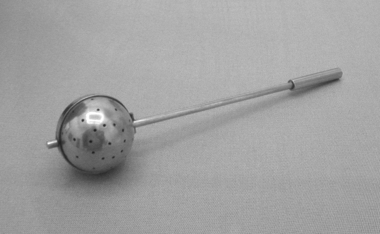 Tea infuser designed by Otto Rittweger and Josef Knau at the Bauhaus Metallwerkstatt, 1924